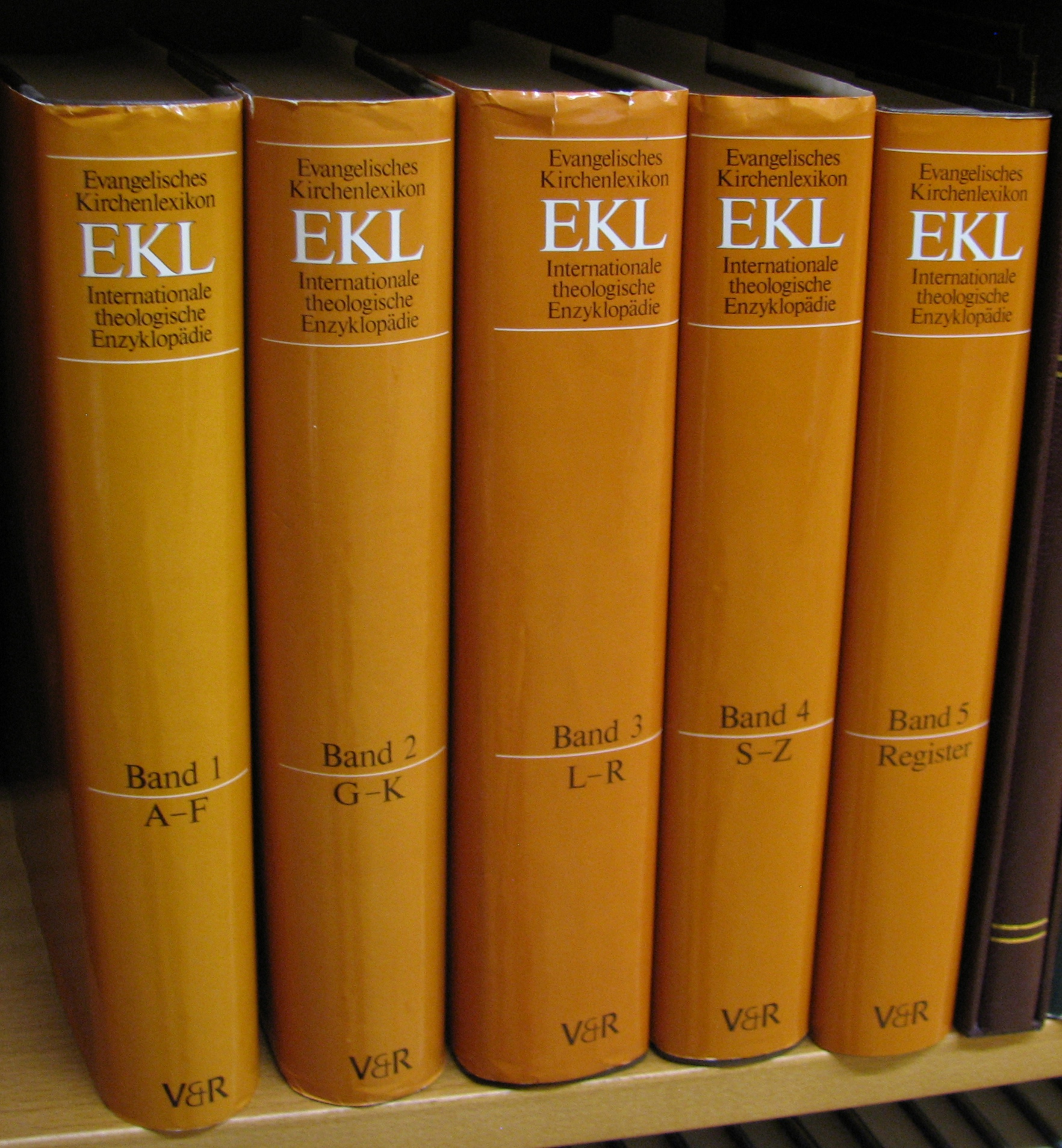 Evangelisches Kirchenlexikon. Third edition. Göttingen 1986-97, Vandenhoeck & Ruprecht.